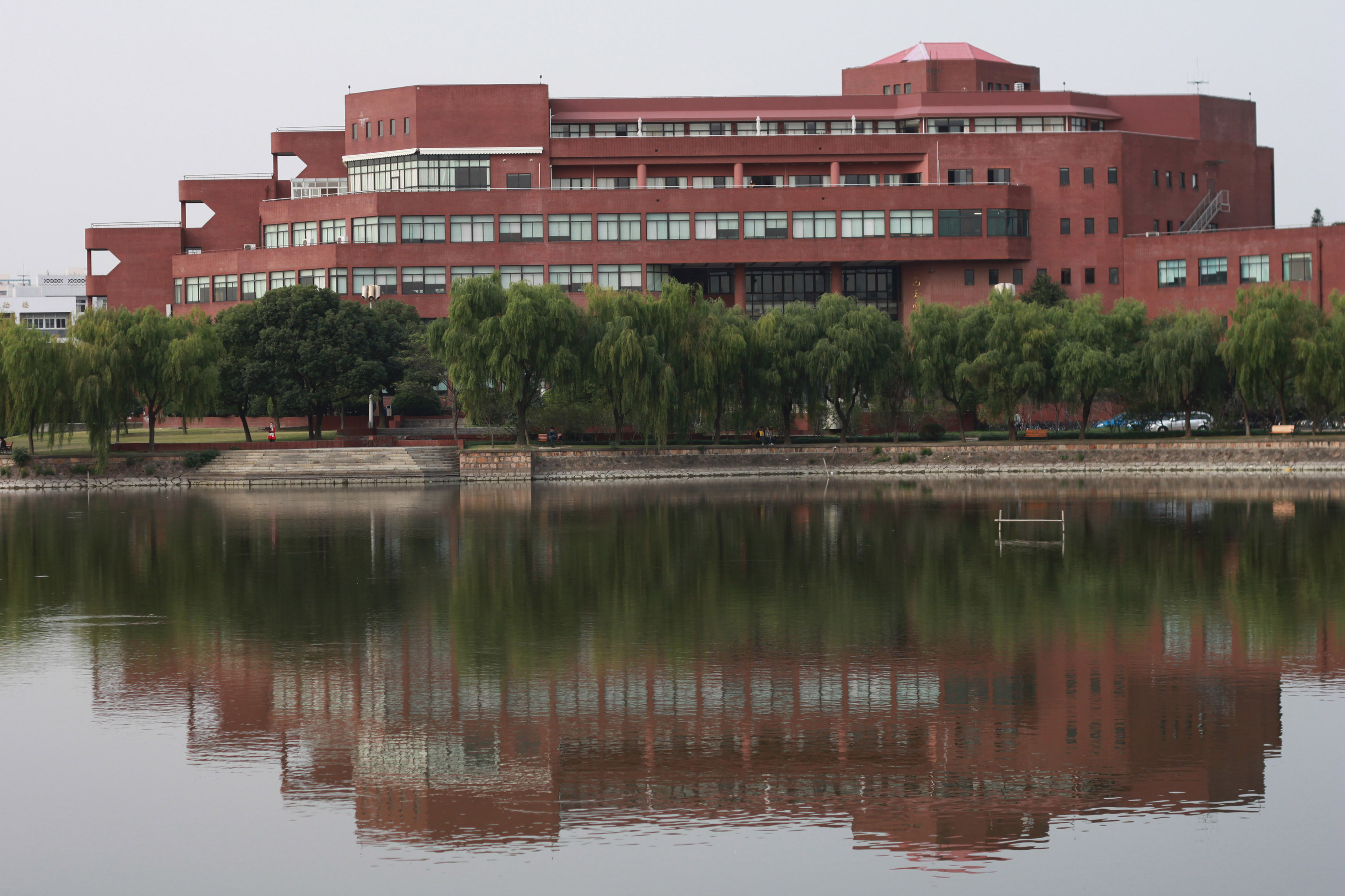 Baoyugang Library at Shanghai Jiao Tong University